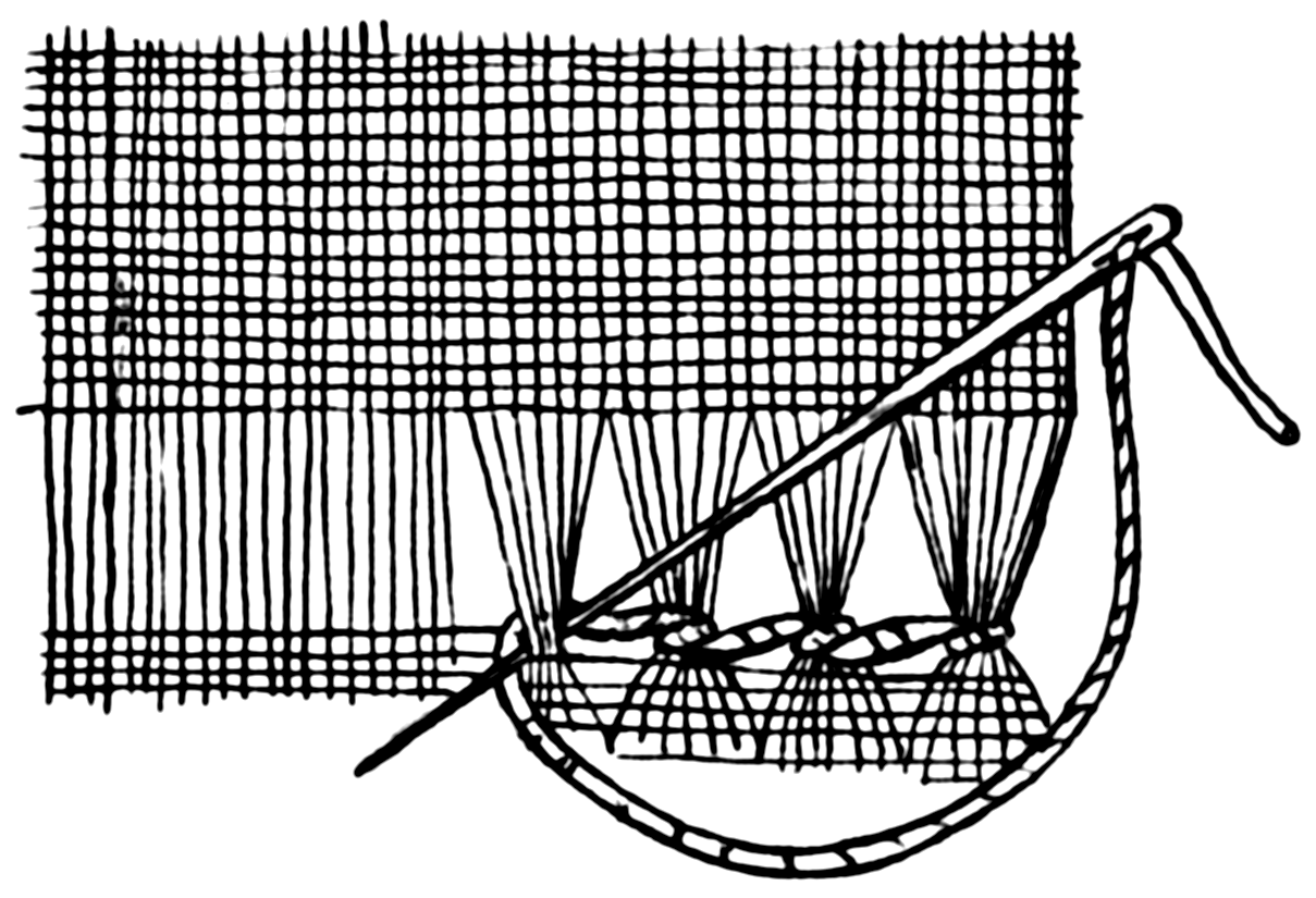 Line art drawing of hemstitch.